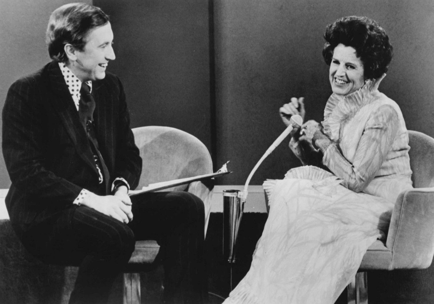 Photo of Rose Kennedy and David Frost. Mrs. Kennedy was a guest on Frost's talk/interview television program and was eighty years old at the time.